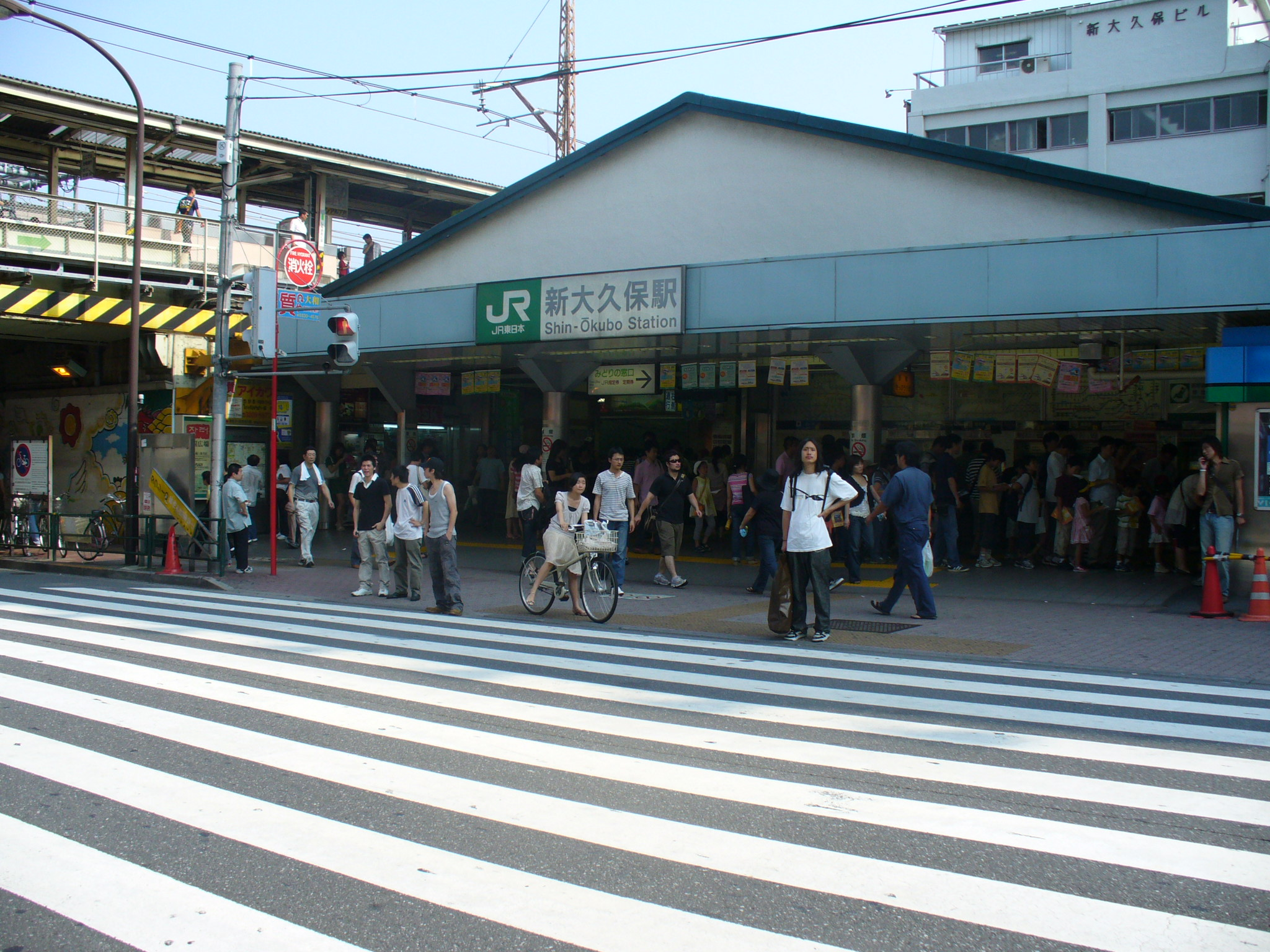 Exit of Shin-Ōkubo Station